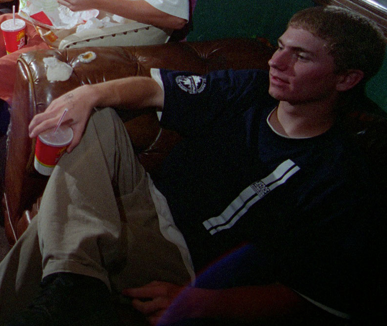 Scott Raynor in 1995